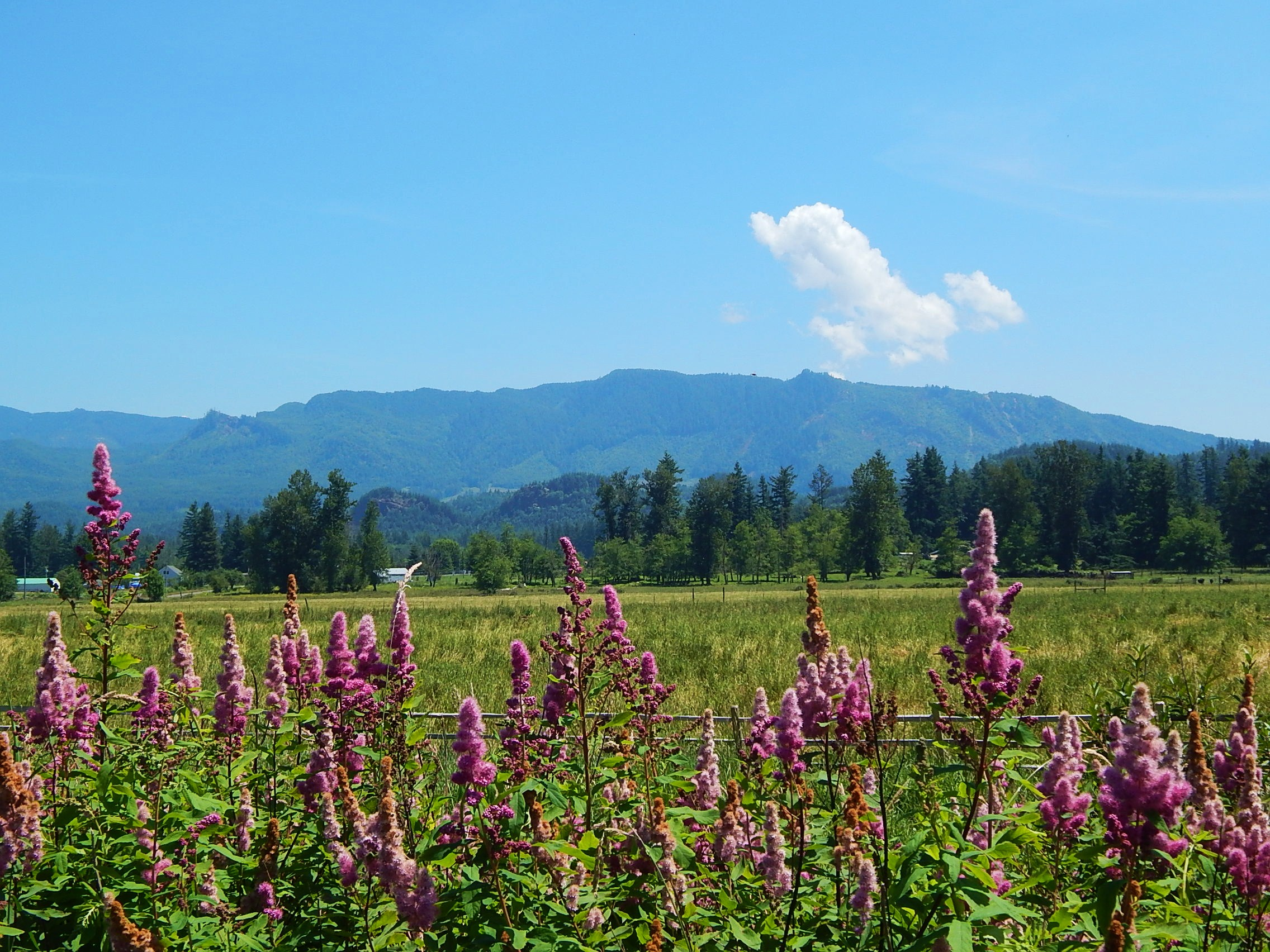 Boise Ridge near Enumclaw, Washington. Hardhack (Spiraea douglasi) in foreground